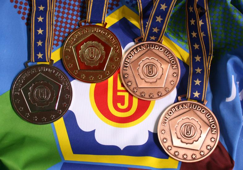 The medals awarded at the 2010 European Judo Championships in Vienna